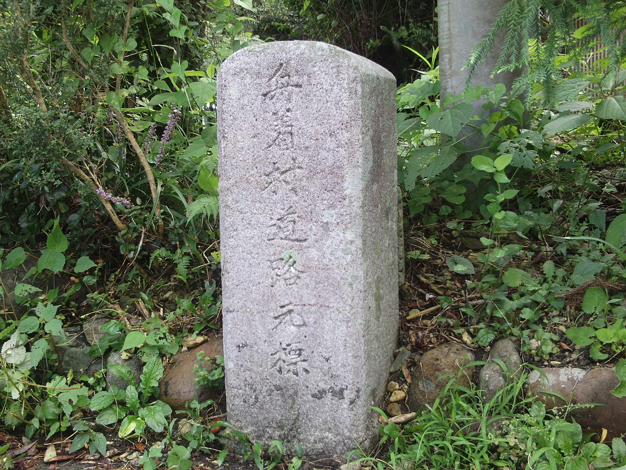 Kilometre zero of Funatsuke village. (Funatsuke village, Yana-gun, Aichi.)